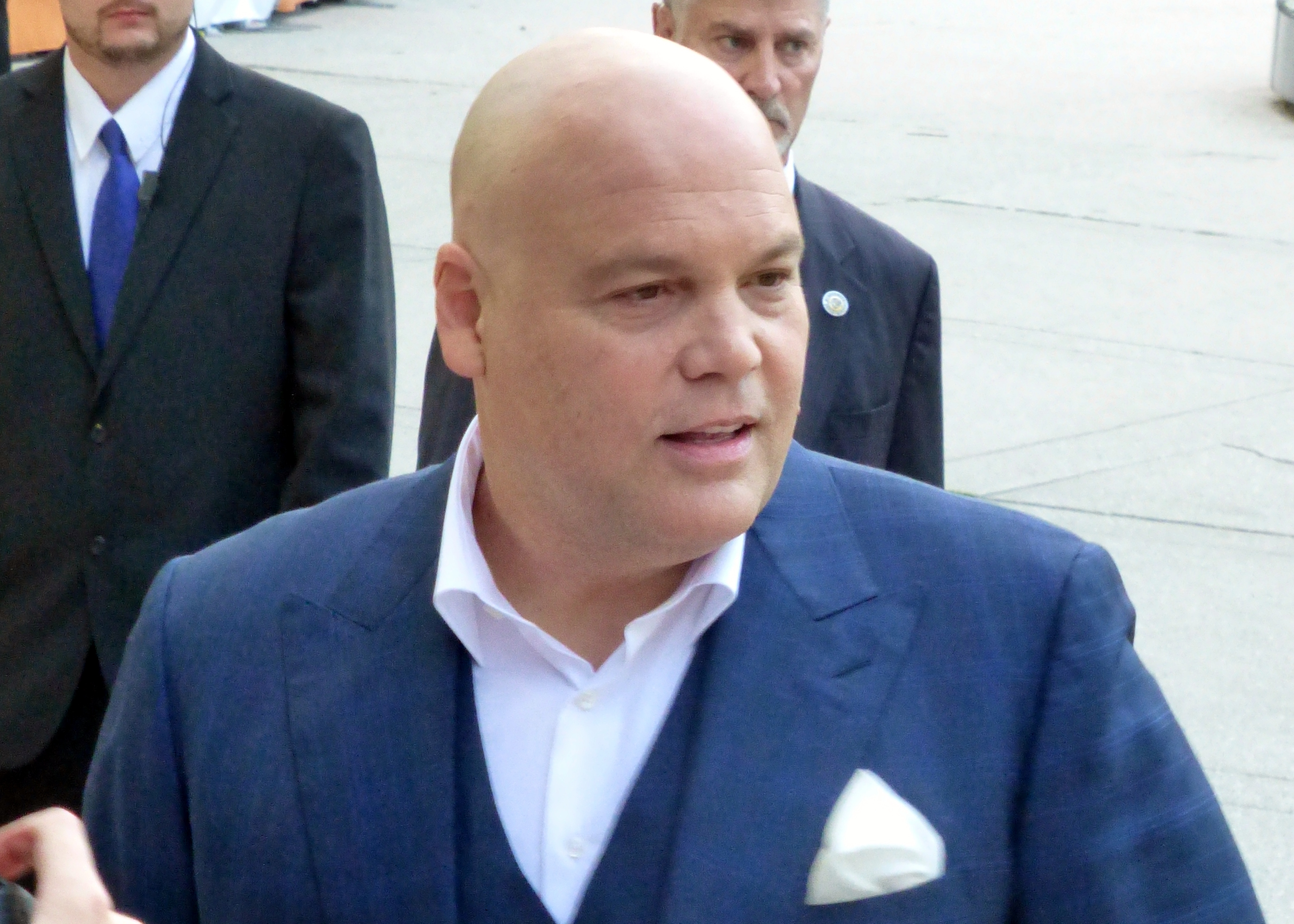 Vincent D'Onofrio at the premiere of The Judge, Toronto Film Festival 2014